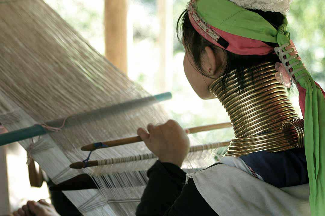 In Thailand they would say she's from the: "Long Neck Tribe..."